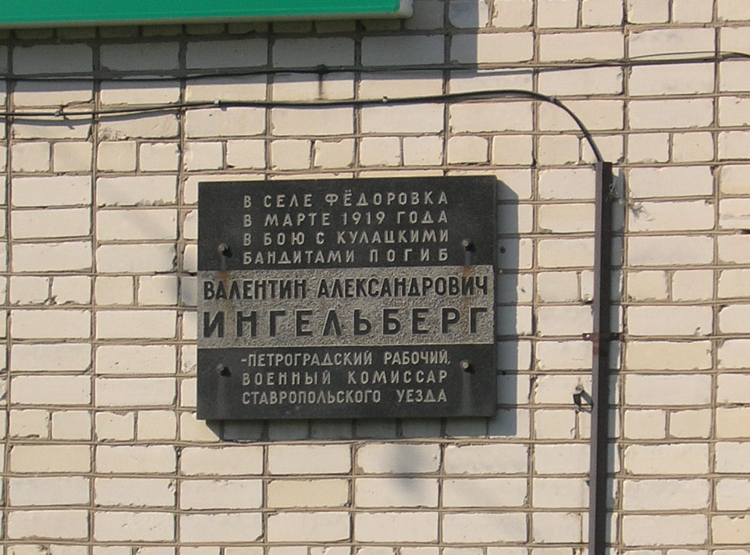 Fedorovka (Samara oblast, Russia), Memory mark on Ingelberg street